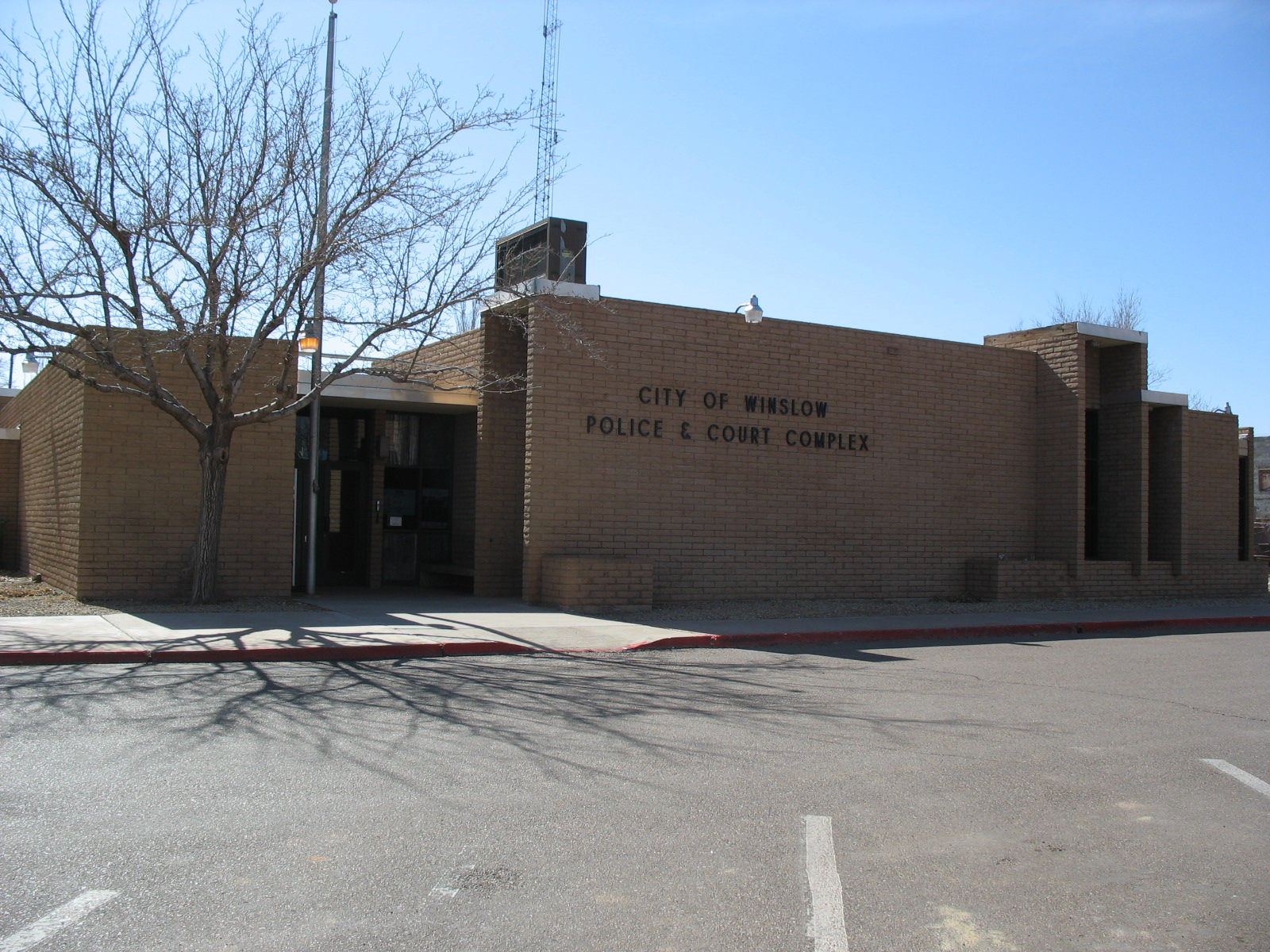 Police and Court Complex in Winslow, Arizona